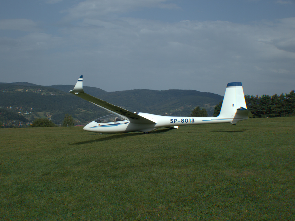 Glider SZD-54 Perkoz